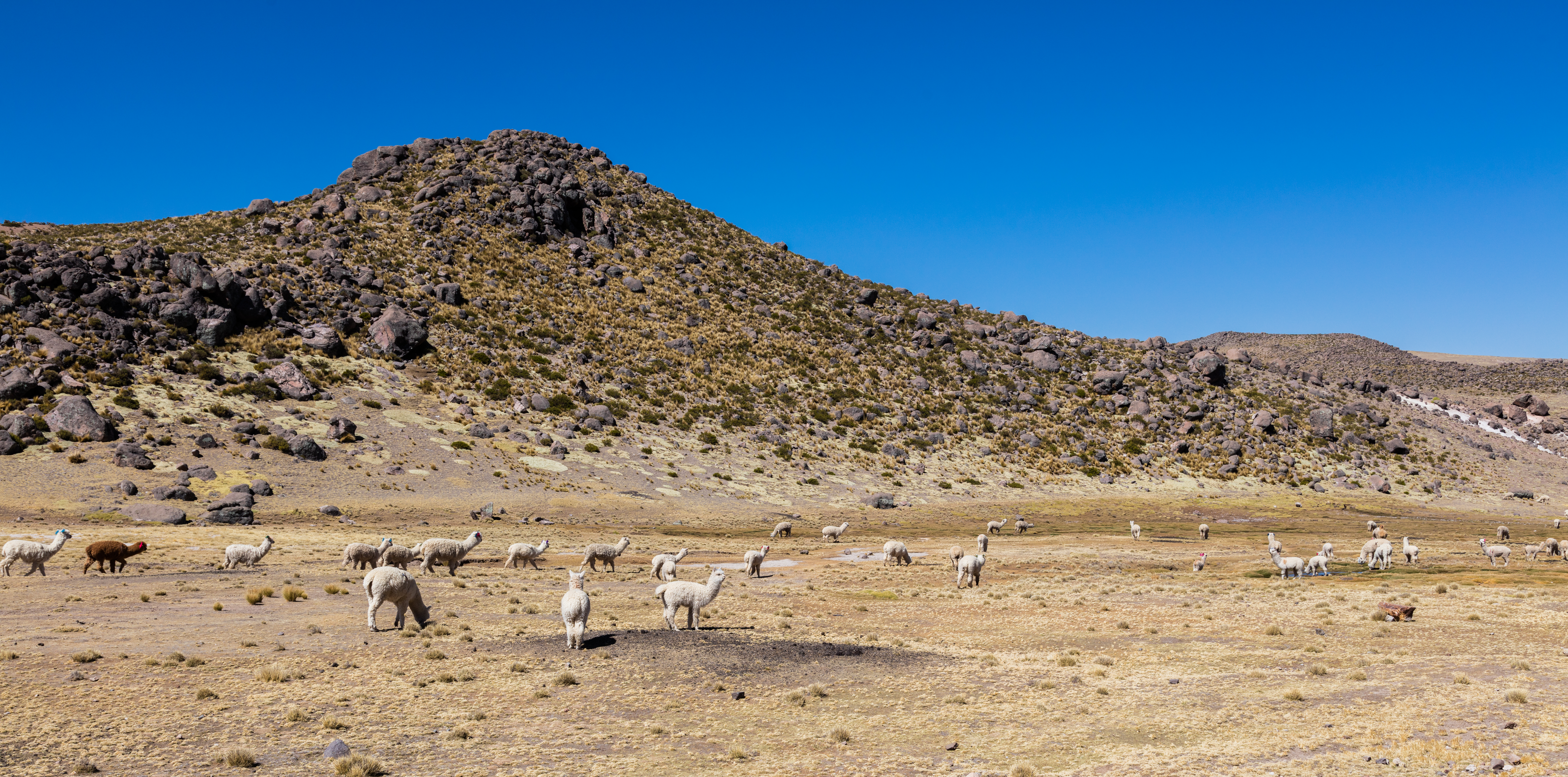 Vicuñas (Vicugna vicugna) in Reserva Nacional Salinas, Arequipa, Peru